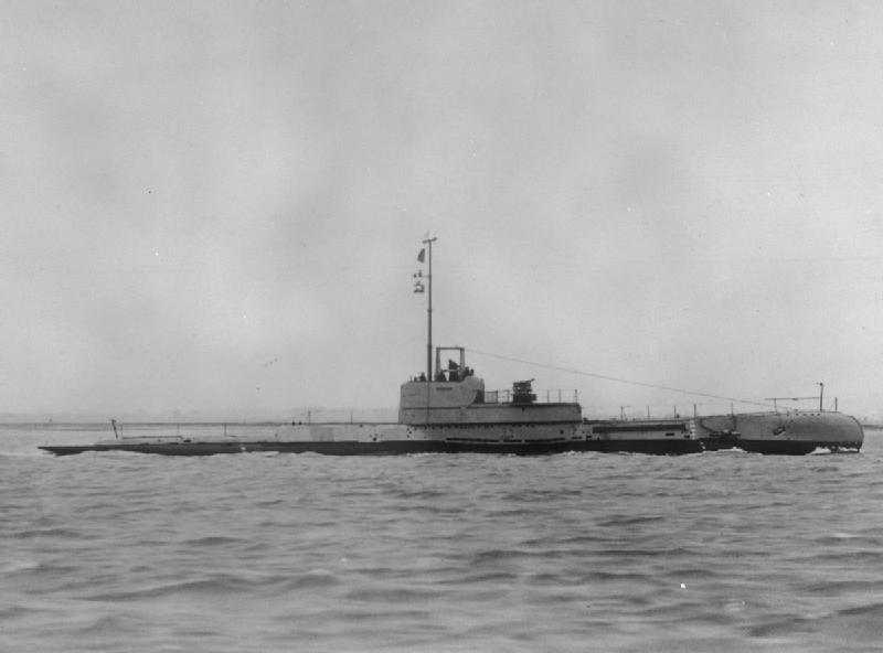 British S class submarine HMSM STURGEON underway. 3" gun in the 'raised' position.